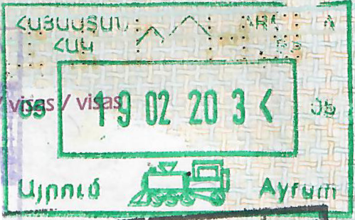 Armenian entry stamp in a Polish passport, issued on the railway border with Georgia in Ayrum.